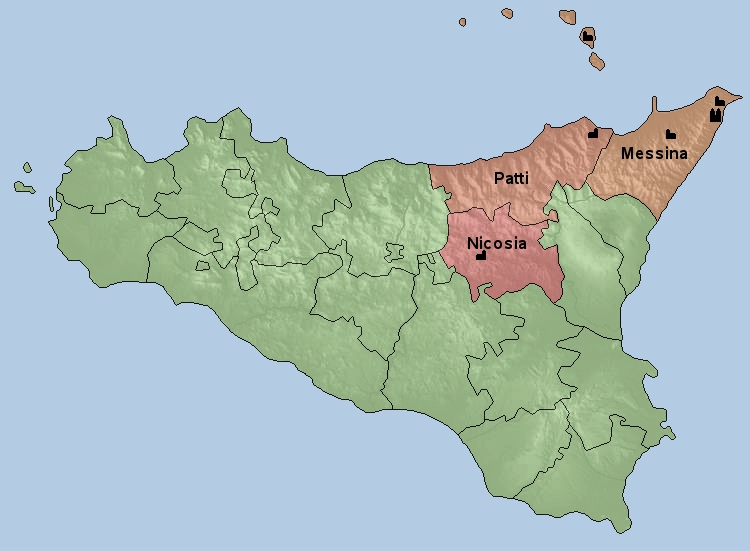 Map of the ecclesiastical province of Messina (^^: Cathedral of a metropolitan diocese, –^: Cathedral of a suffragan diocese, ^–: Co-cathedral)